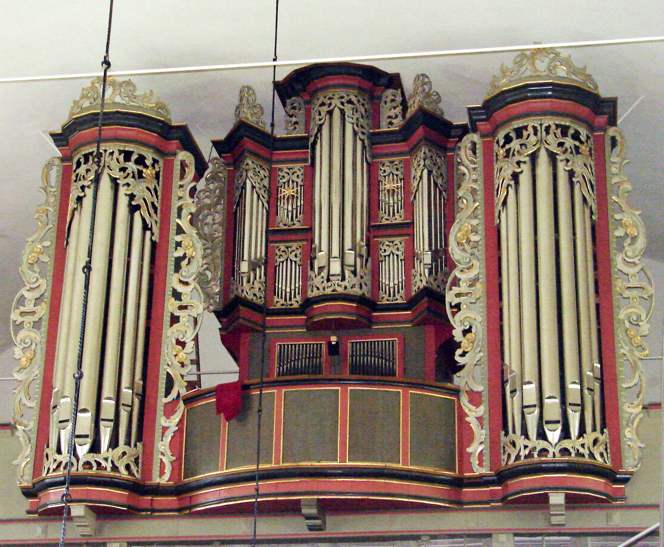 Organ in Osterholz-Scharmbeck, St. Willehadi